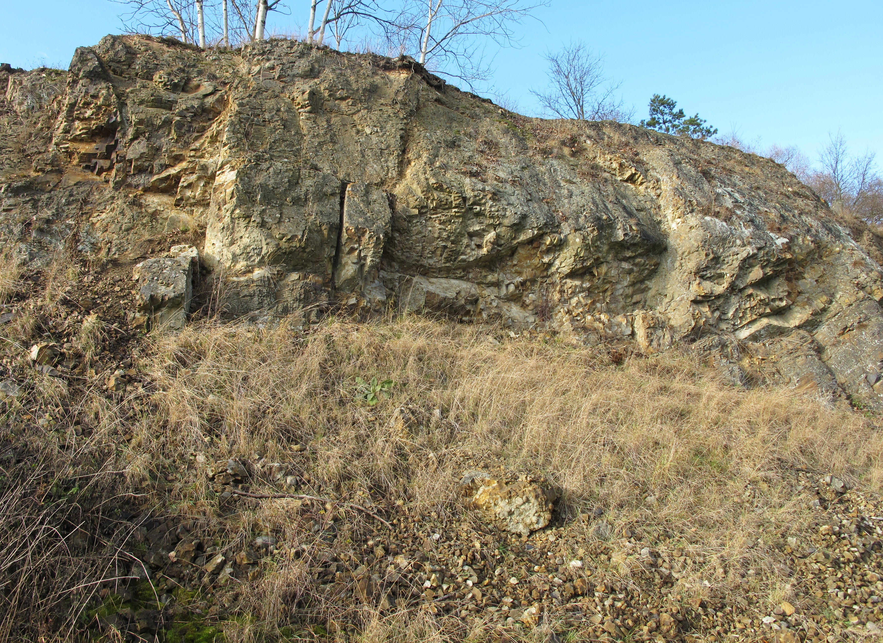 Natural monument Jezírko u Dobríše - quarry in proterozoic rock; Příbram District - Czech Republic